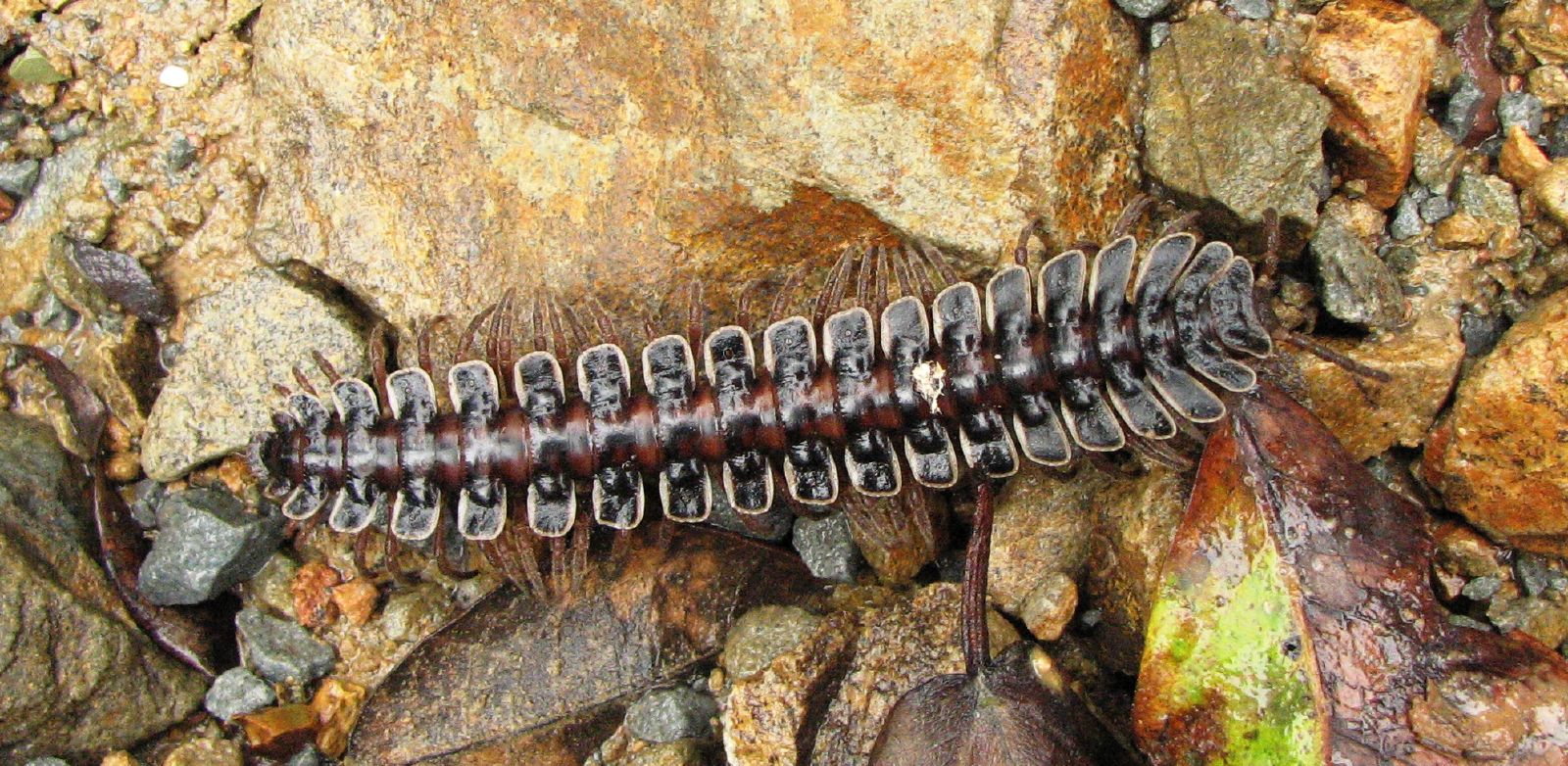 A Polydesmidan — Flat-back Millipede. In the Danum Valley Conservation Area on Borneo, Sabah, Malaysia.